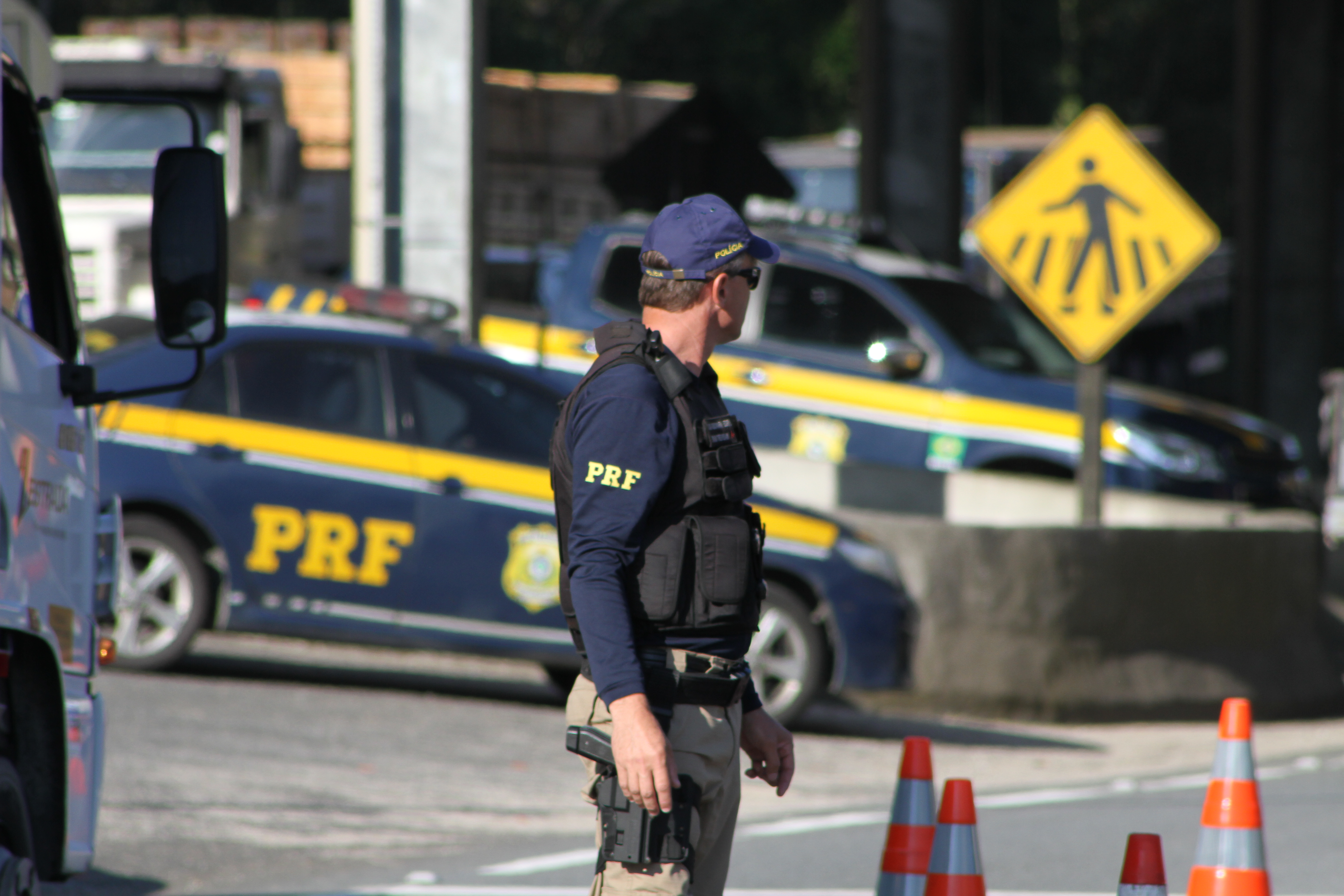 Operação PRF01